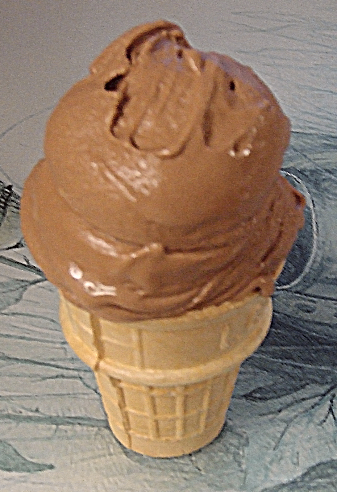 Chocolate ice cream